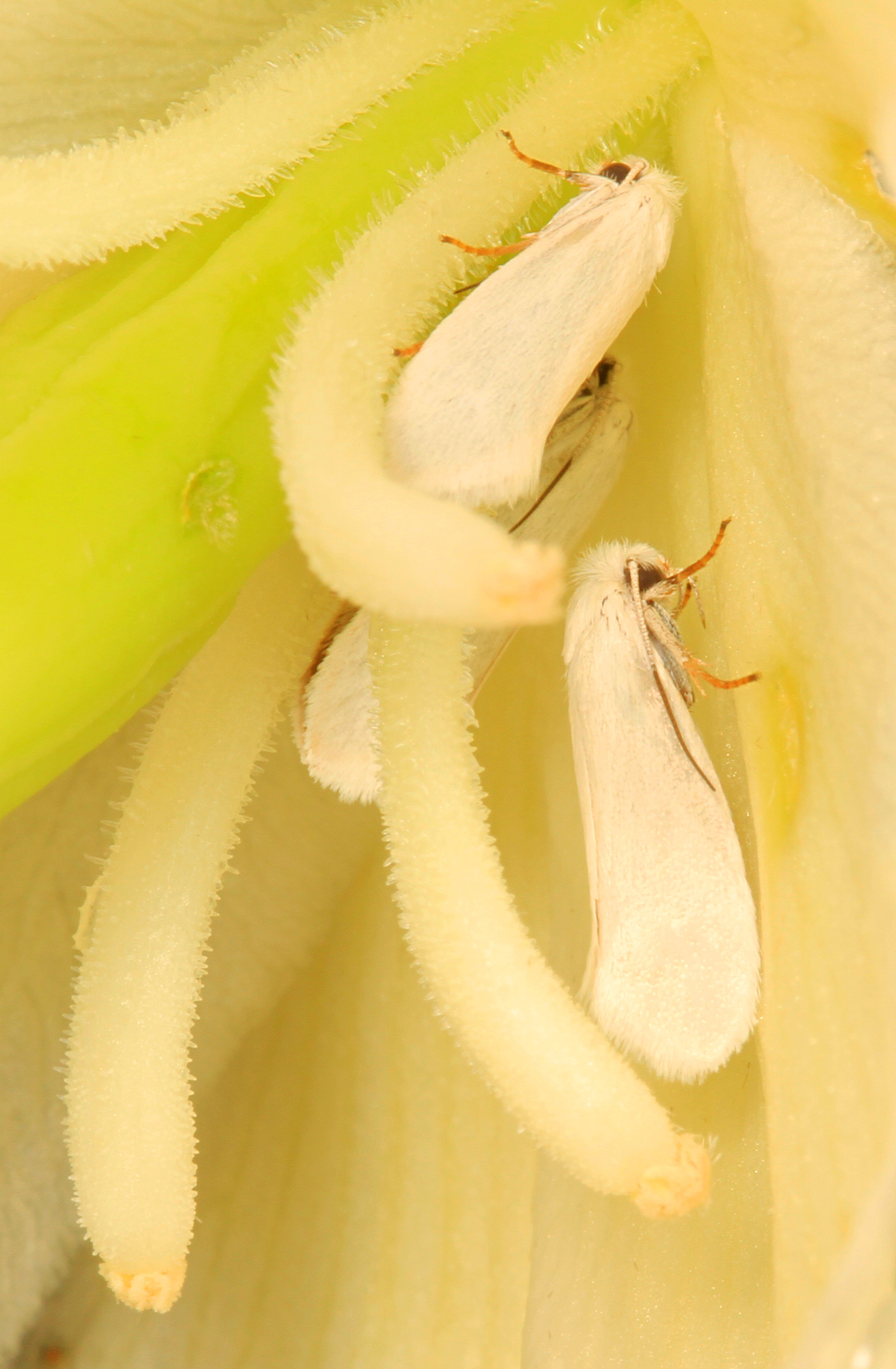 Bogus Yucca Moths - Prodoxus species, Woodbridge, Virginia